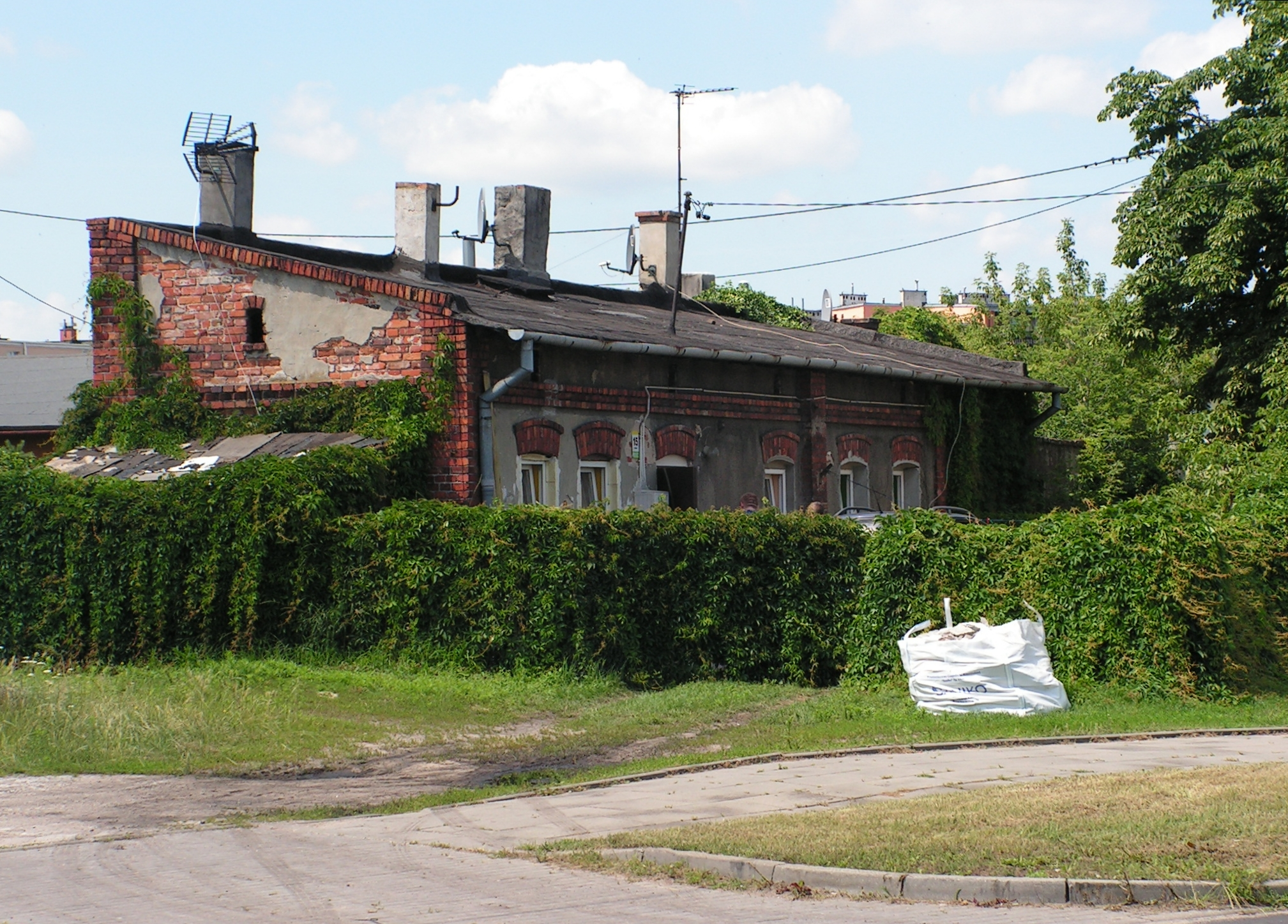 Monumental house at 15 Węglowa Street in Włocławek.